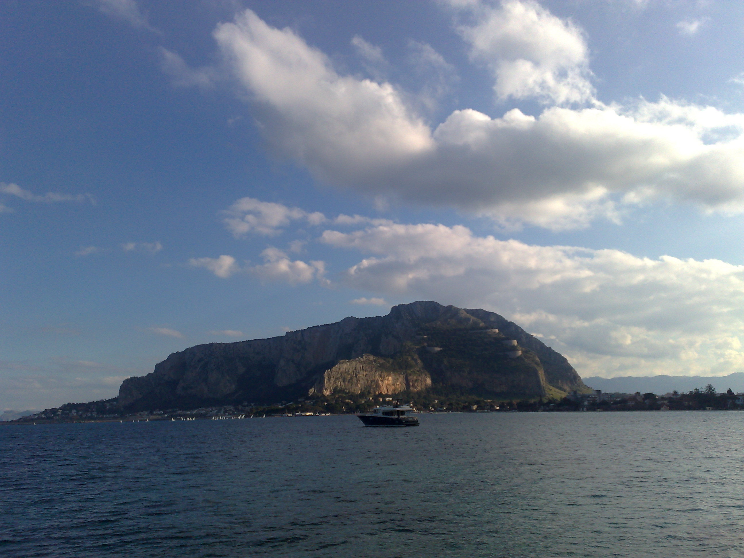 Palermo: Monte Pellegrino (Mondello)